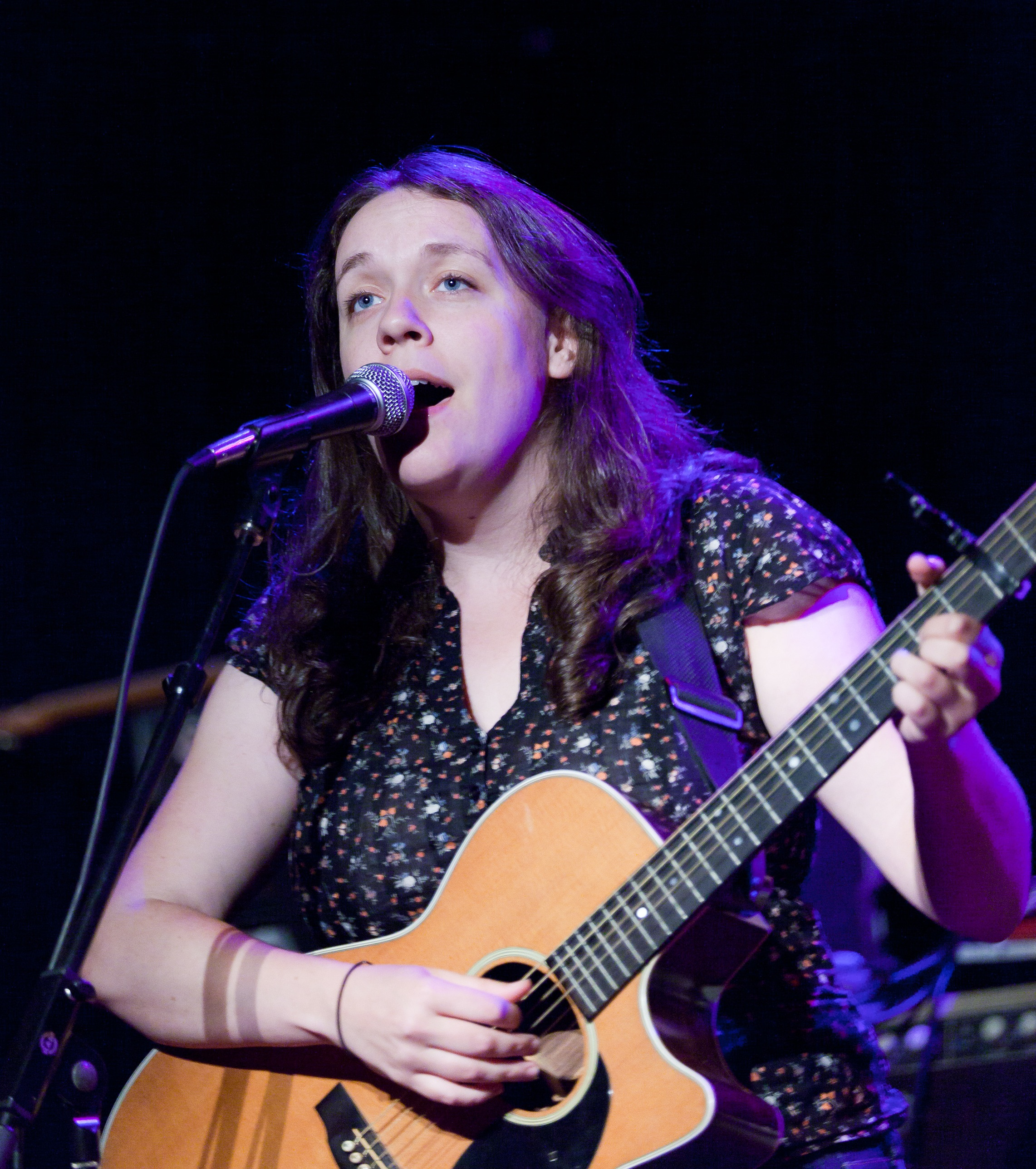 Lucy Wainright Roche at the High Noon Saloon